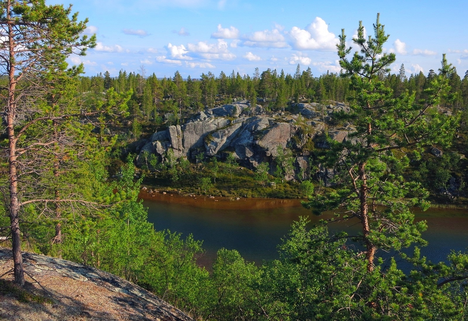 Landscape of Vätsäri Wilderness Area between Kirakkajärvi and Jankkila villages (Inari, Lapland, Finland)